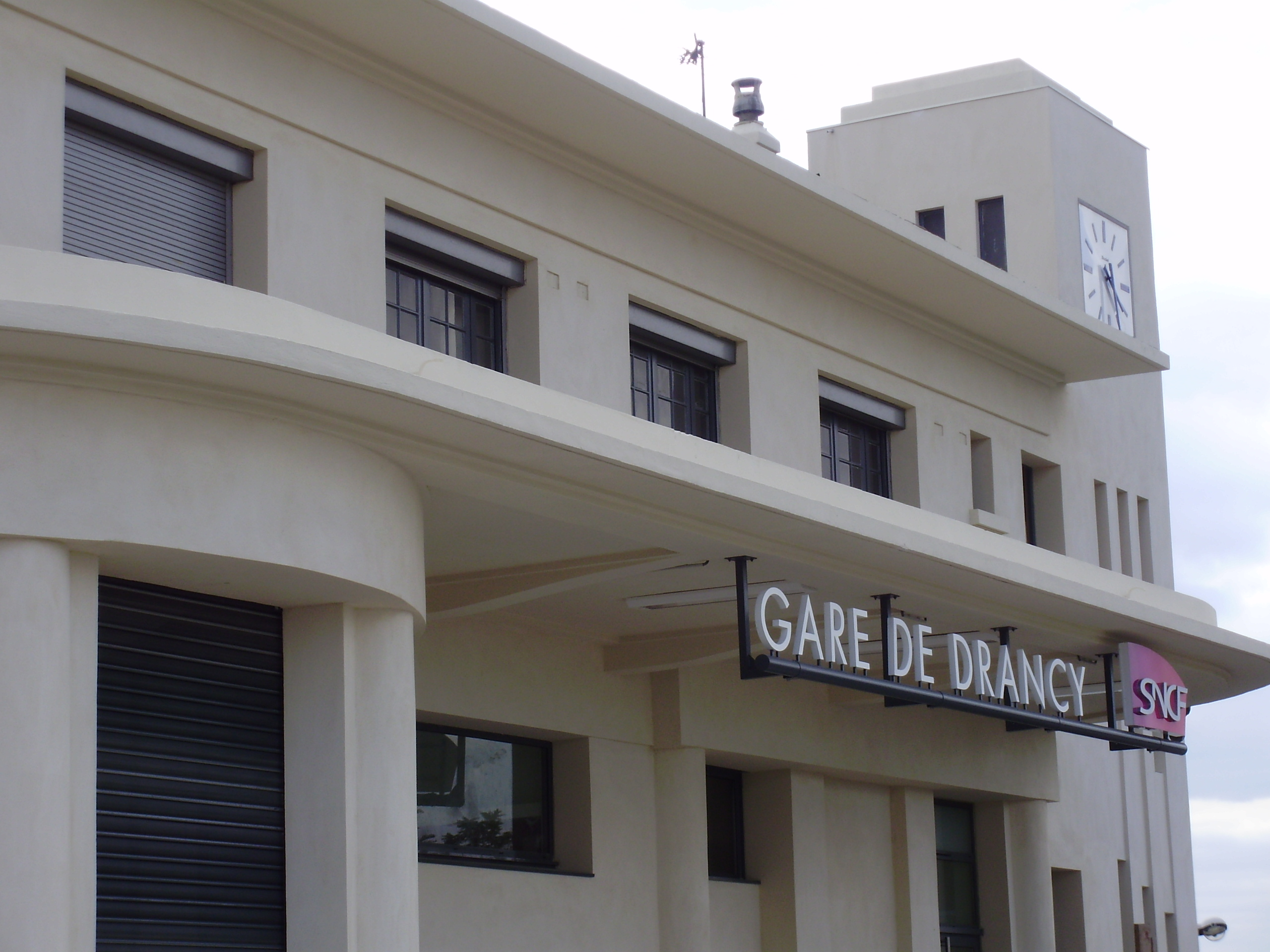 Drancy station, Seine-Saint-Denis, France (view from the place in front of the station in the north of tracks, Anatole-France street)